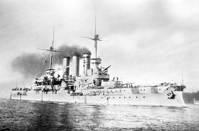 German Braunschweig class battleship, view from starboard